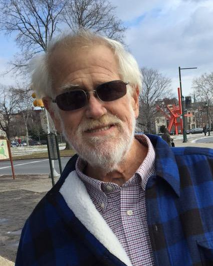 Angry Grandpa in Philadelphia, Pennsylvania in 2015